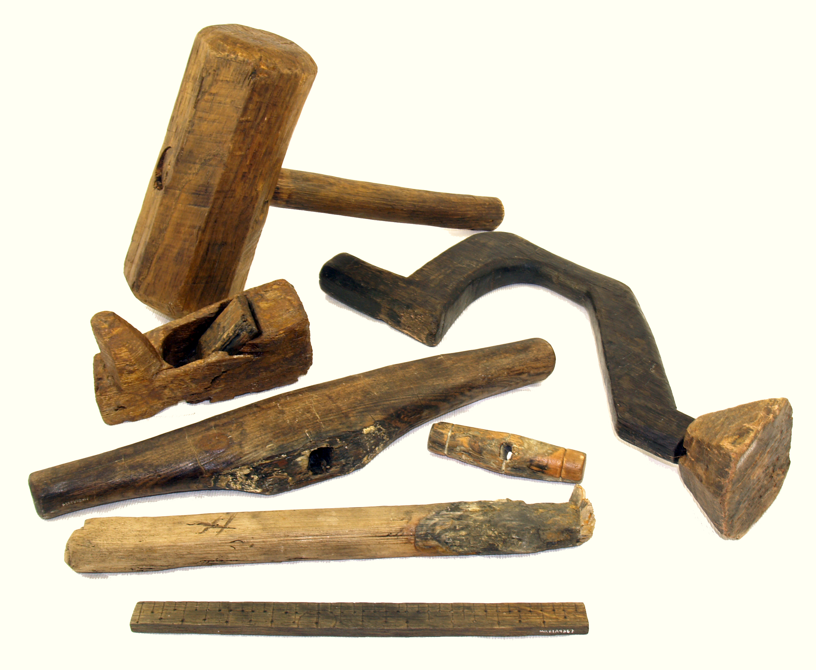 A set of carpentry tools found on board the carrack Mary Rose.